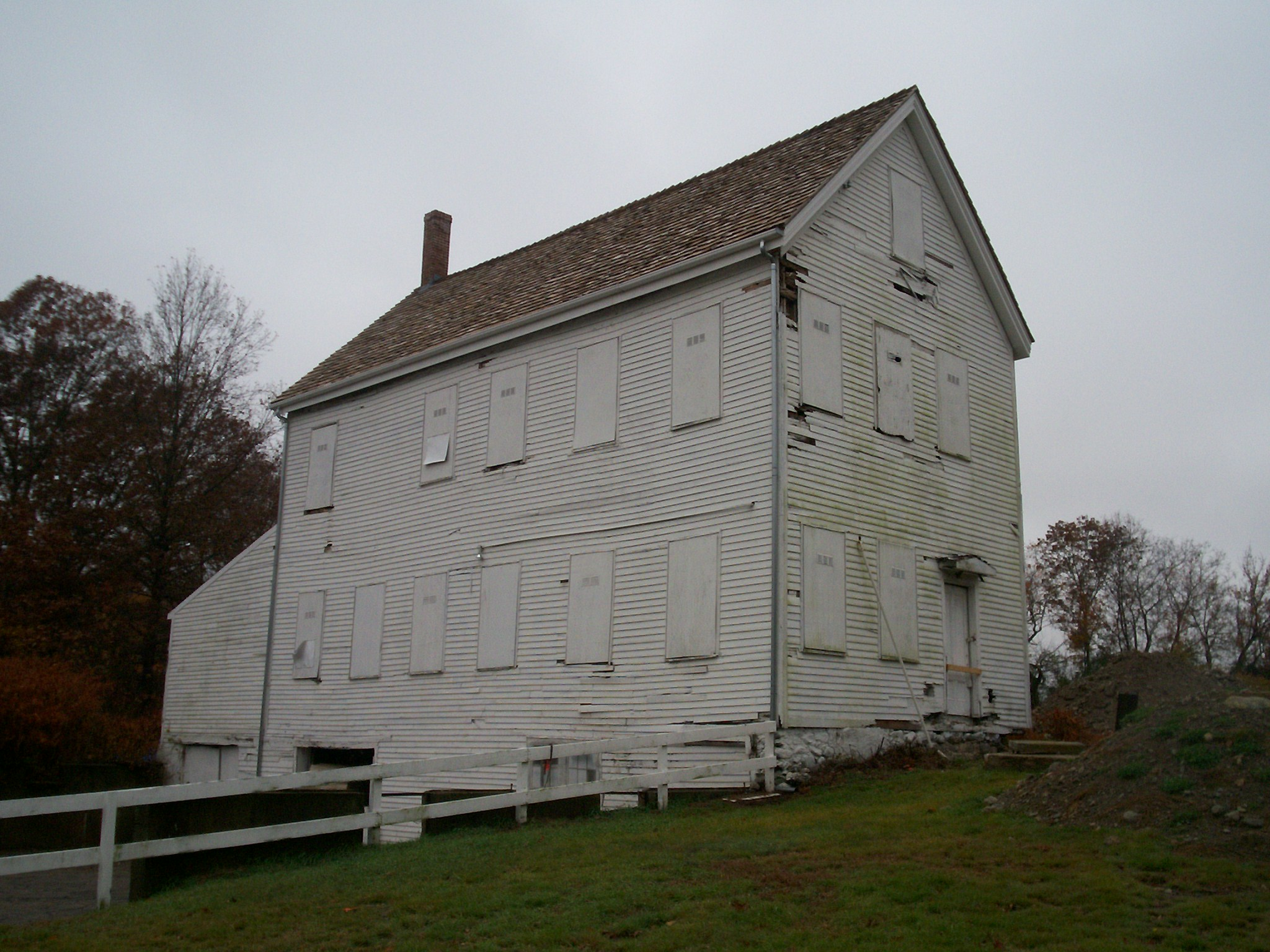 The Print Shop, constructed in about 1890, is the last remaining historic building at Brook Farm. The building is not associated with the Transcendentalist utopian community that briefly flourished on the property in the mid-19th century. It was built by the Lutheran Church, which operated the Martin Luther Orphan’s Home on the property from 1871 to 1944.[1] Now overseen by the Massachusetts Department of Conservation and Recreation, the building is abandoned and in deteriorating condition (but may be undergoing renovation).